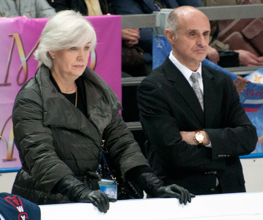 2011 Cup of Russia, short program.